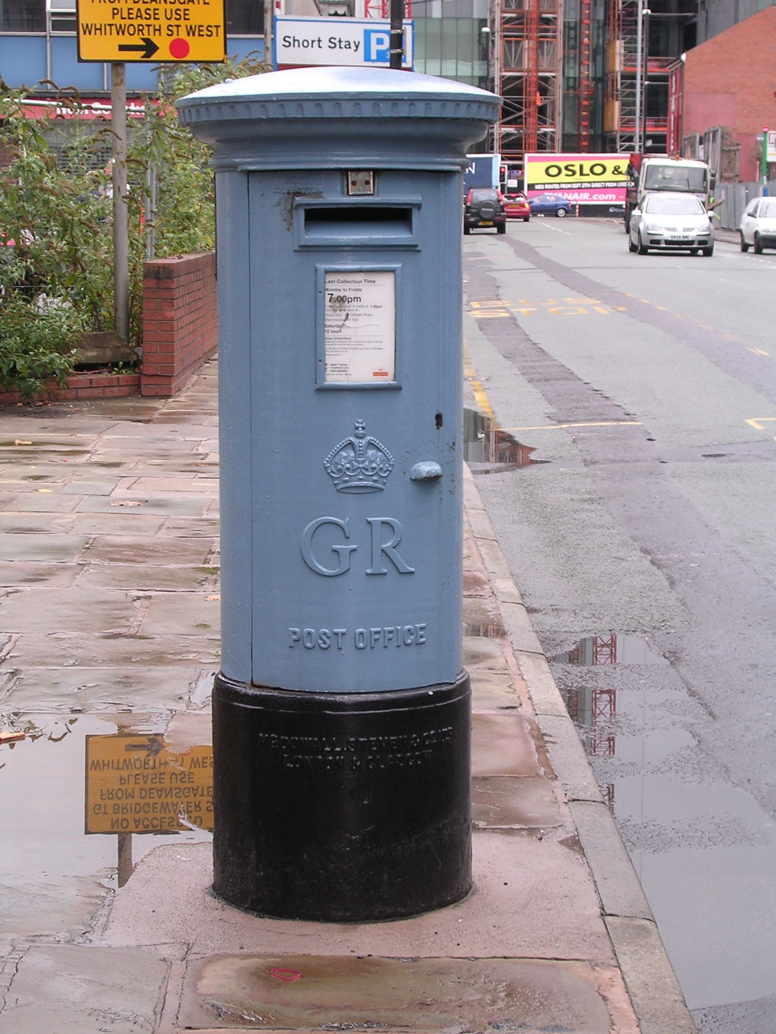 This George VI box is outside the Manchester Museum of Industry and Science, and is in normal daily use. Painted blue by the Post Office to copy the special airmail letterboxes which were in use in the 1930'sYes it is BLUE